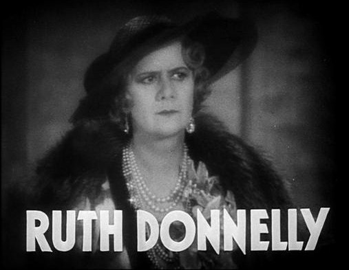 Frame from public domain trailer for Warner Bros. 1933 film Footlight Parade showing Ruth Donnelly and her name in type